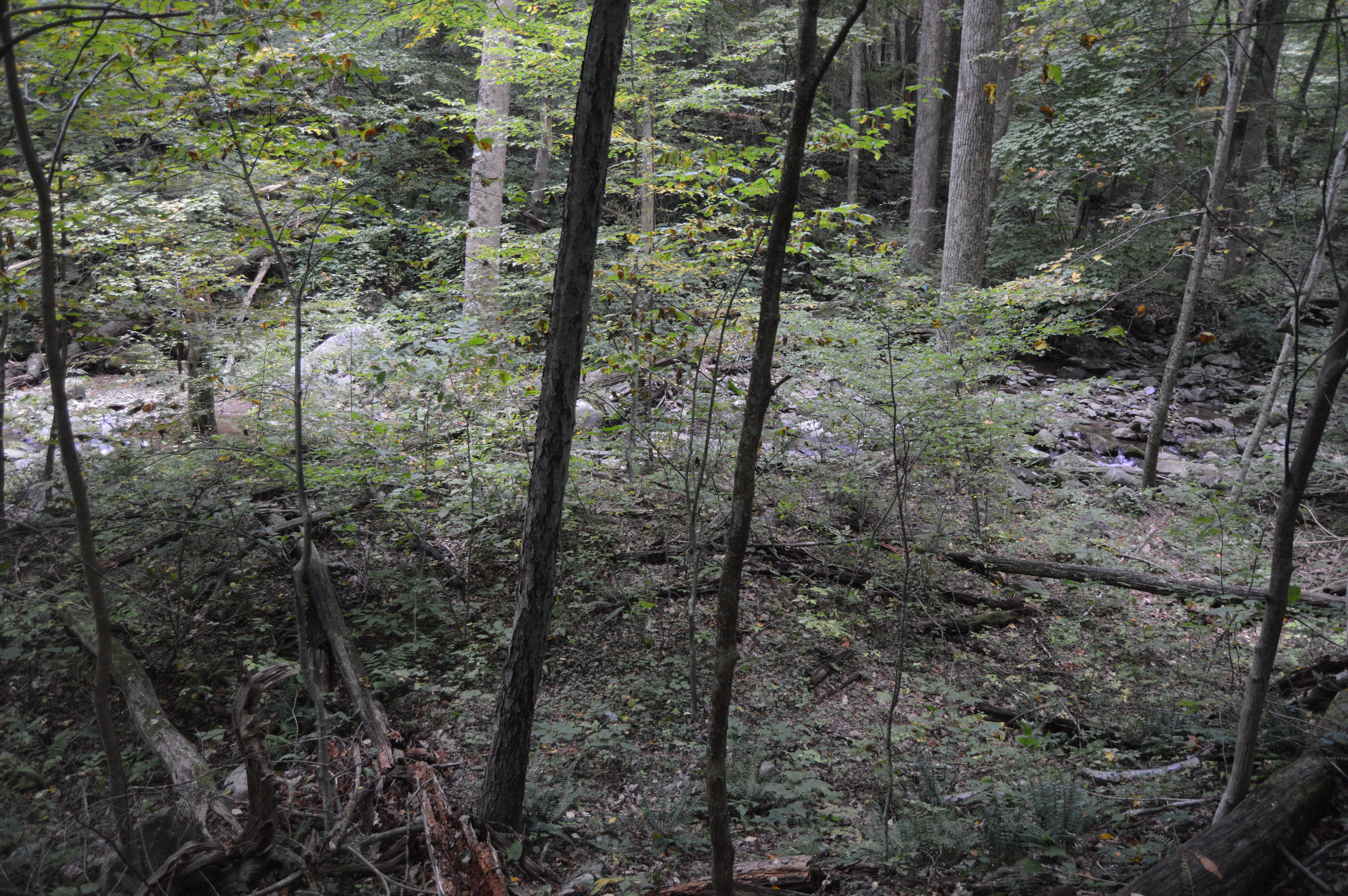 Overview from the Rose River Loop of the Gentle Site, located at the confluence of the Rose River and the Hogcamp Branch (near Big Meadows) in the Madison County portion of Shenandoah National Park in the U.S. state of Virginia. Gentle is an important archaeological site and has been listed on the National Register of Historic Places.